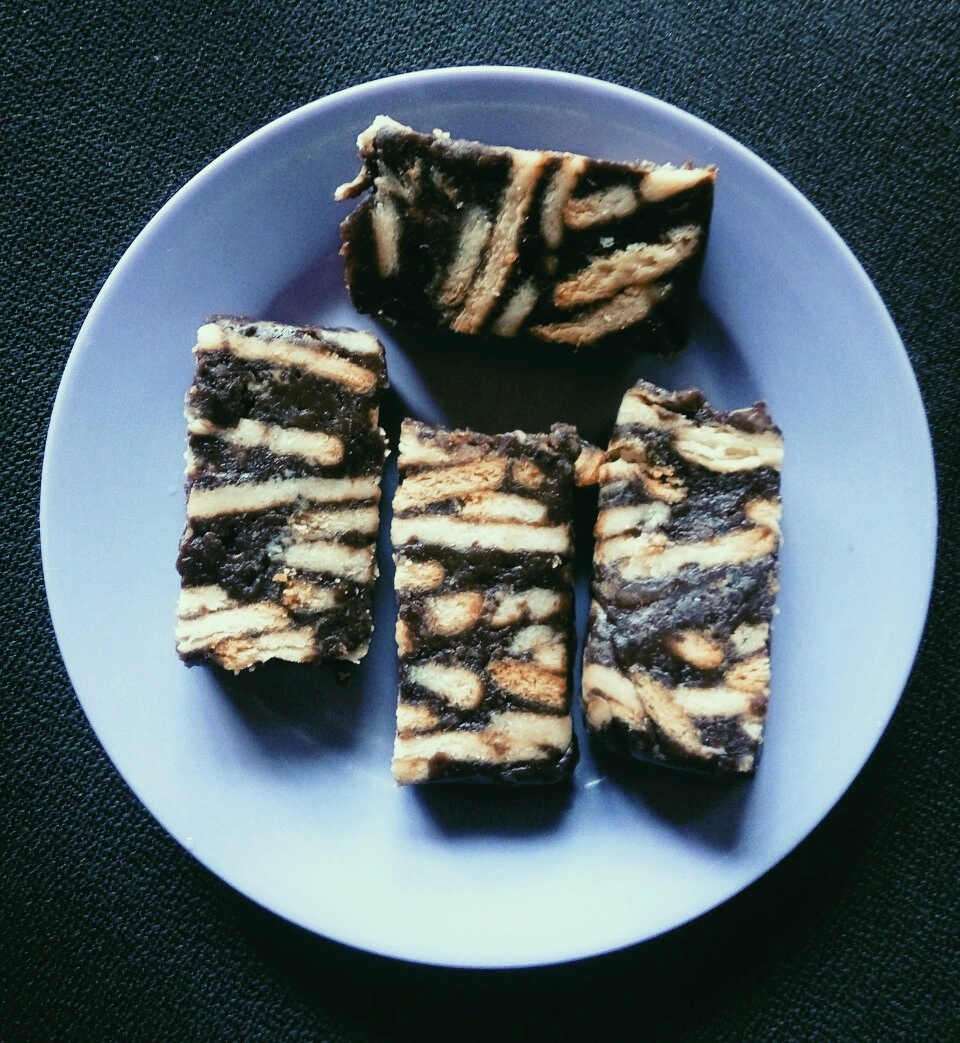 Batik cake from Sabah, Malaysia.